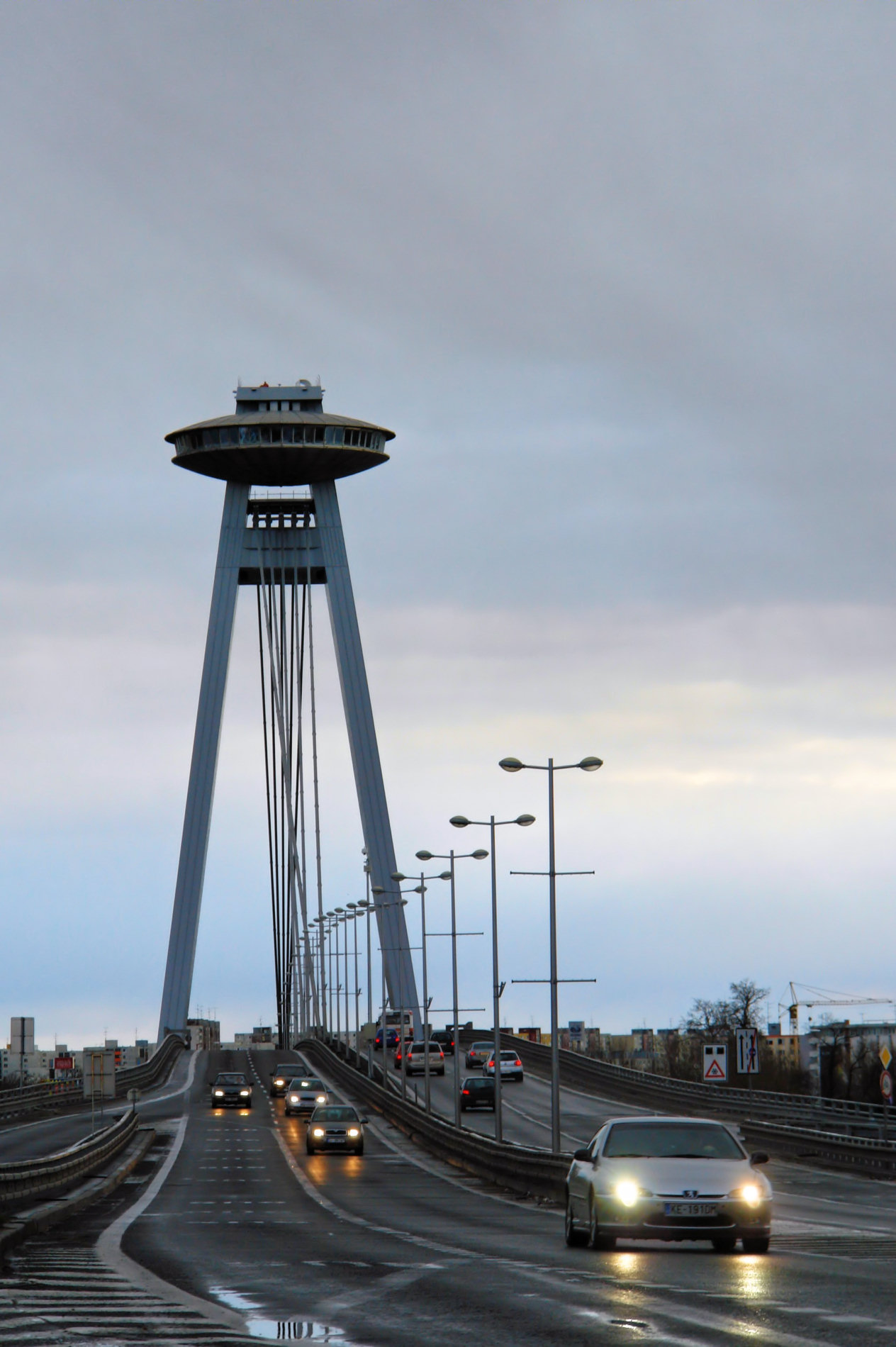 Night shot of Nový Most (New Bridge) is a road bridge over the Danube in Bratislava, the capital of Slovakia.